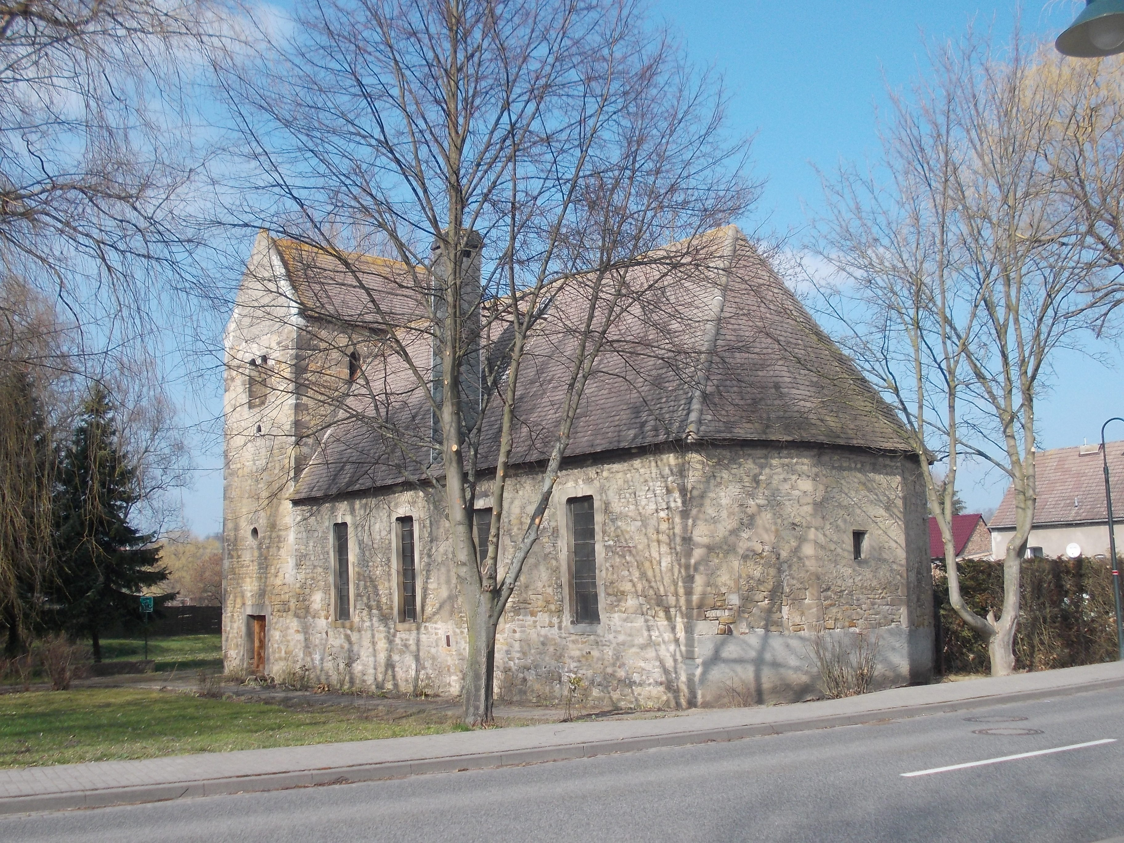 Benkendorf church (Salzatal, district: Saalekreis, Saxony-Anhalt)